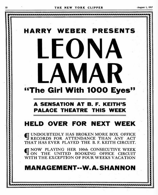 Advertisement for show of Leona LaMar, mentalist, aka "The Girl with 1,000 Eyes", in the August 1, 1917 issue of The New York Clipper.